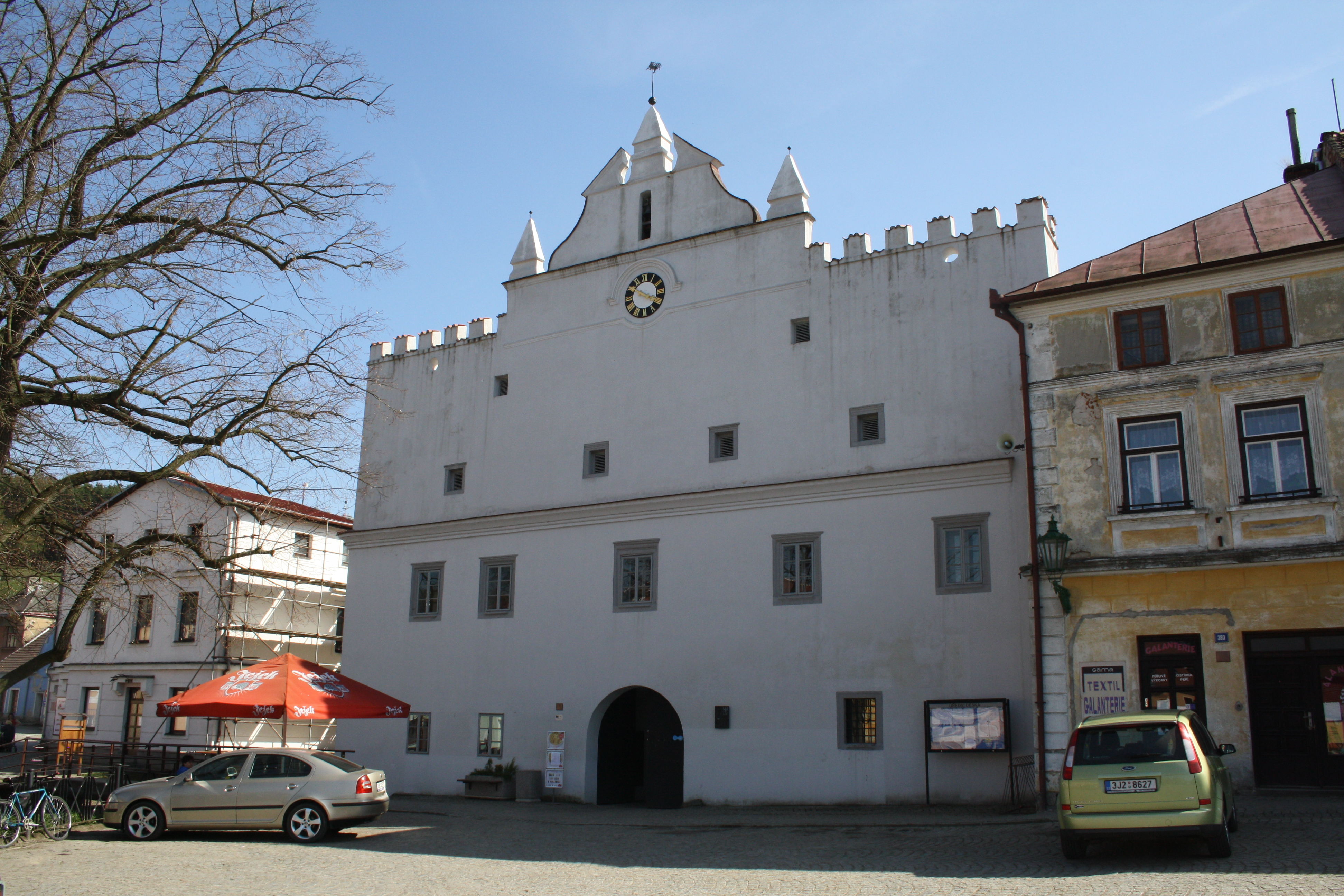 Renaissance townhall in Brtnice.